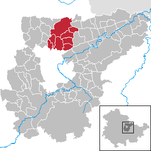 VG Buttelstedt in Thuringia - District Weimarer Land